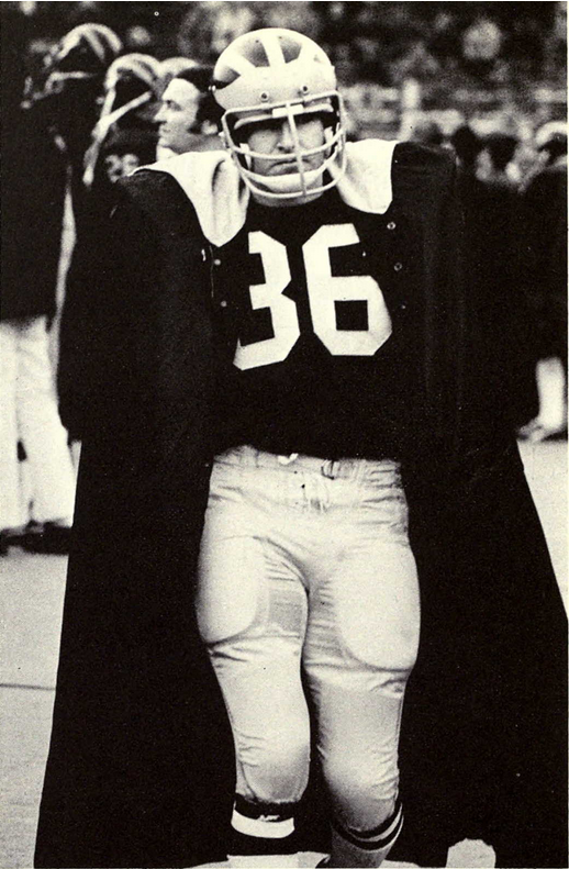 Photograph of Mike Lantry